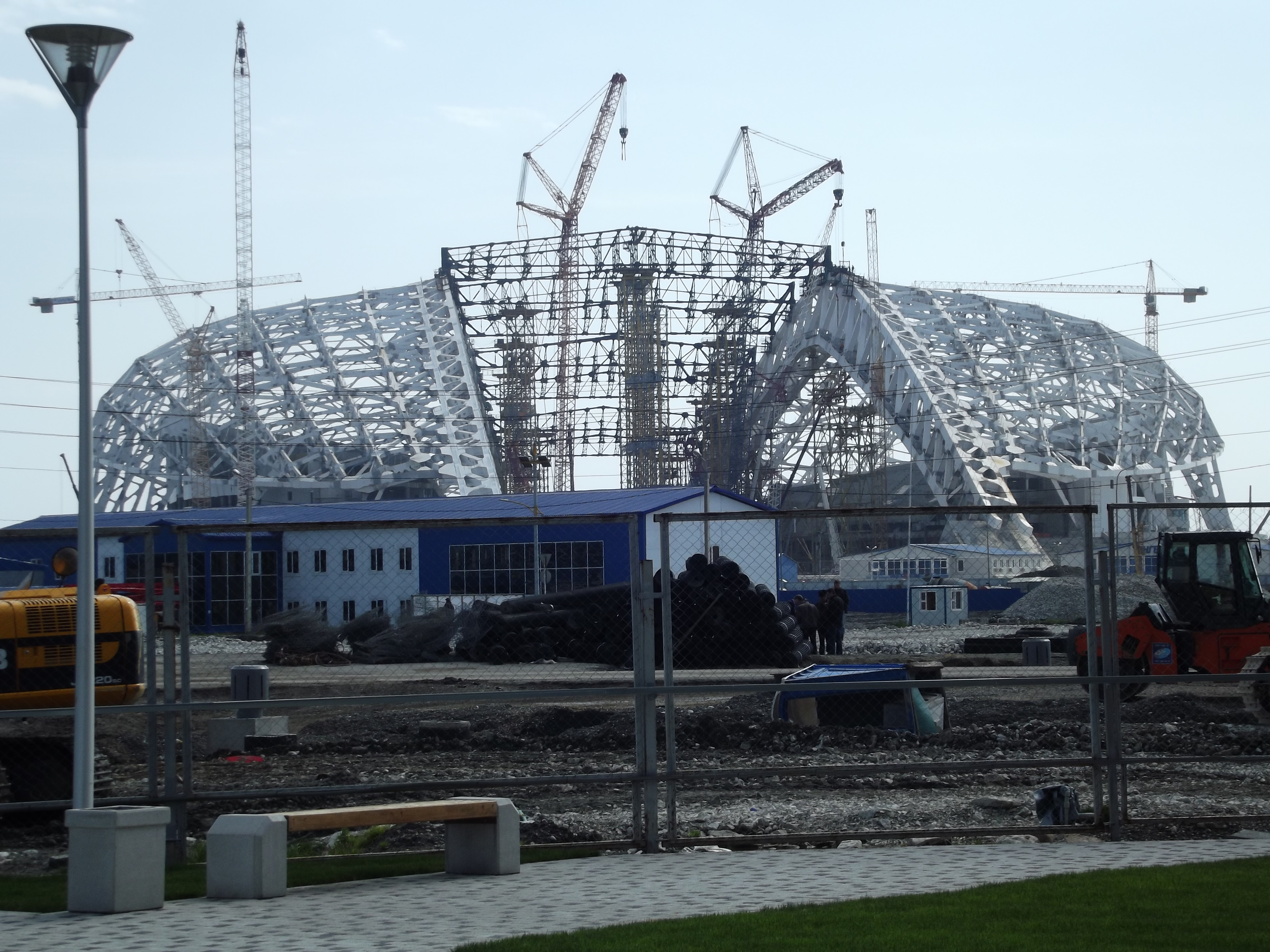 Fisht Olympic Stadium Sochi, March 2013